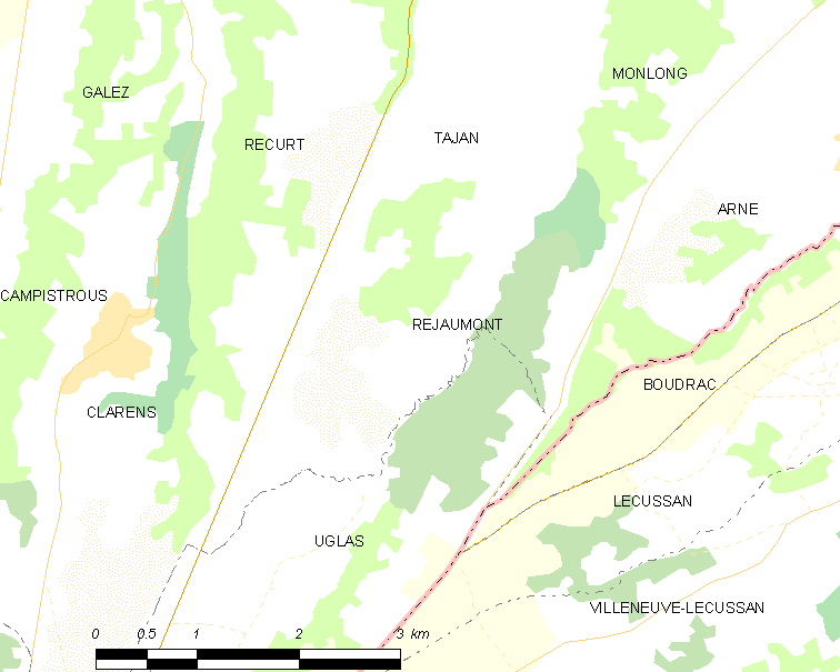 Map of French municipality